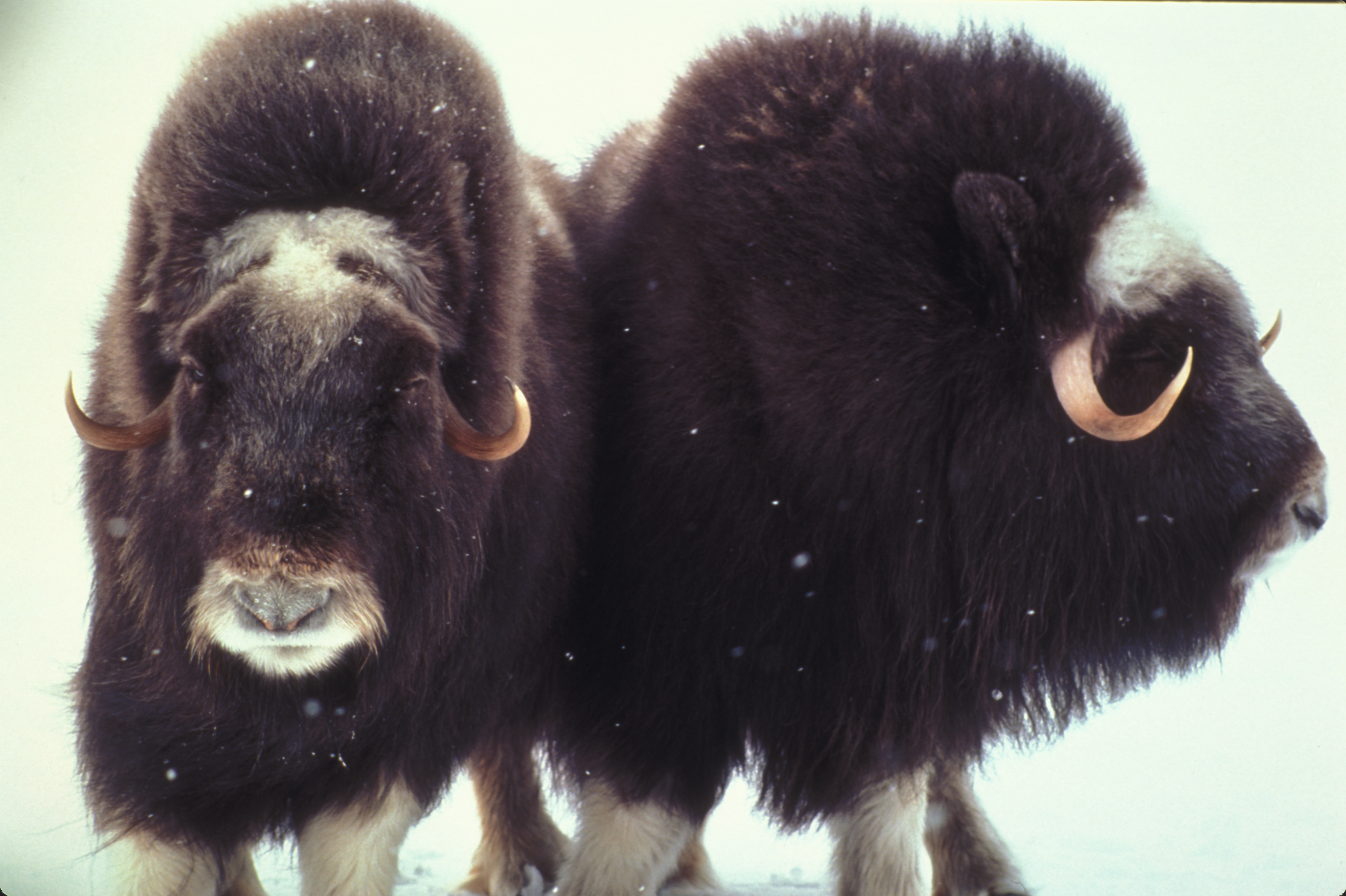 Nunivak Island, AK Photo: USFWS